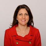 Pic of Rita